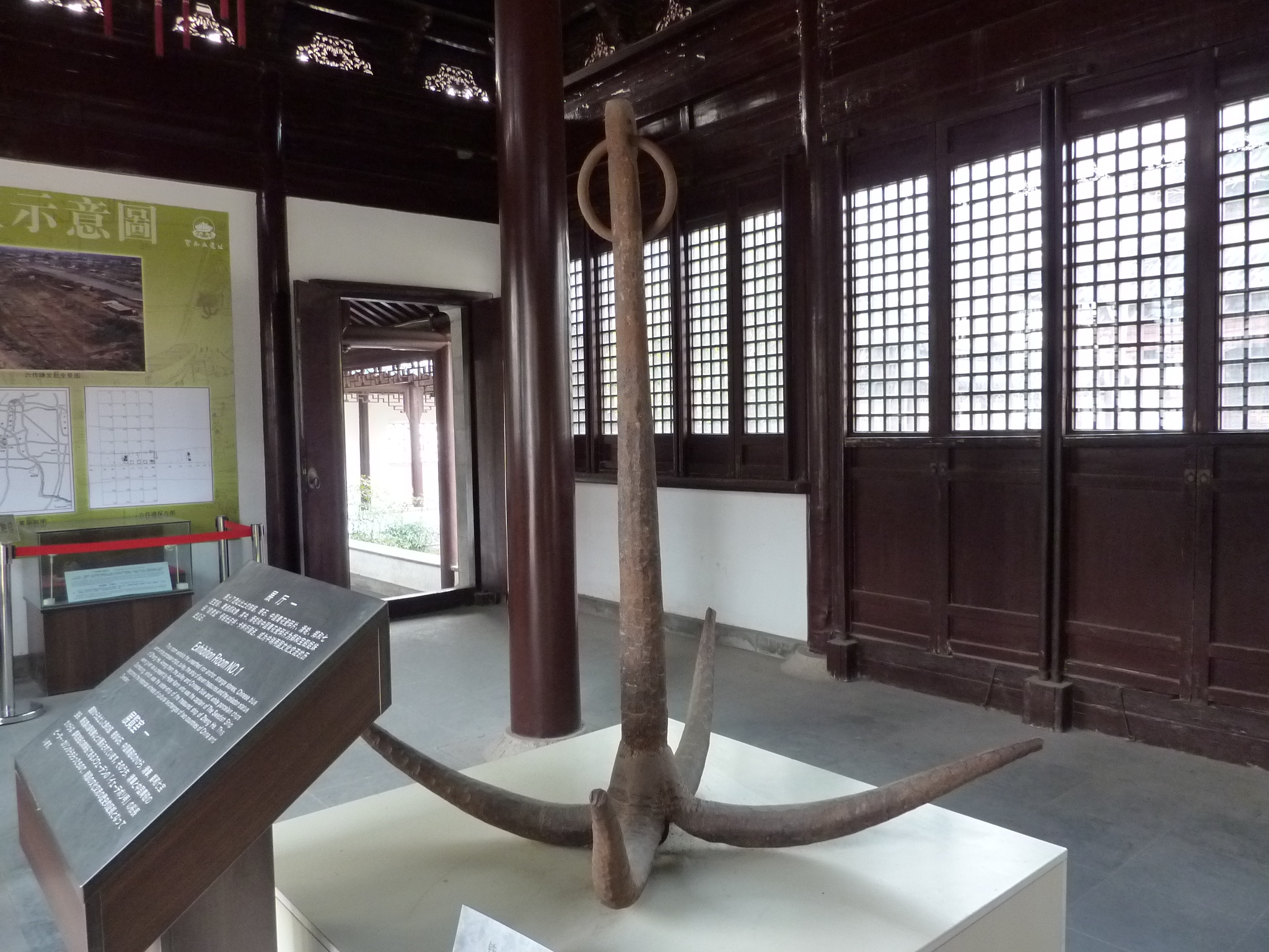 An old anchor, kept at the museum of the Treasure Boat Shipyard in Nanjing. It was found in 2004 in the 6th Working Pool of the shipyard.